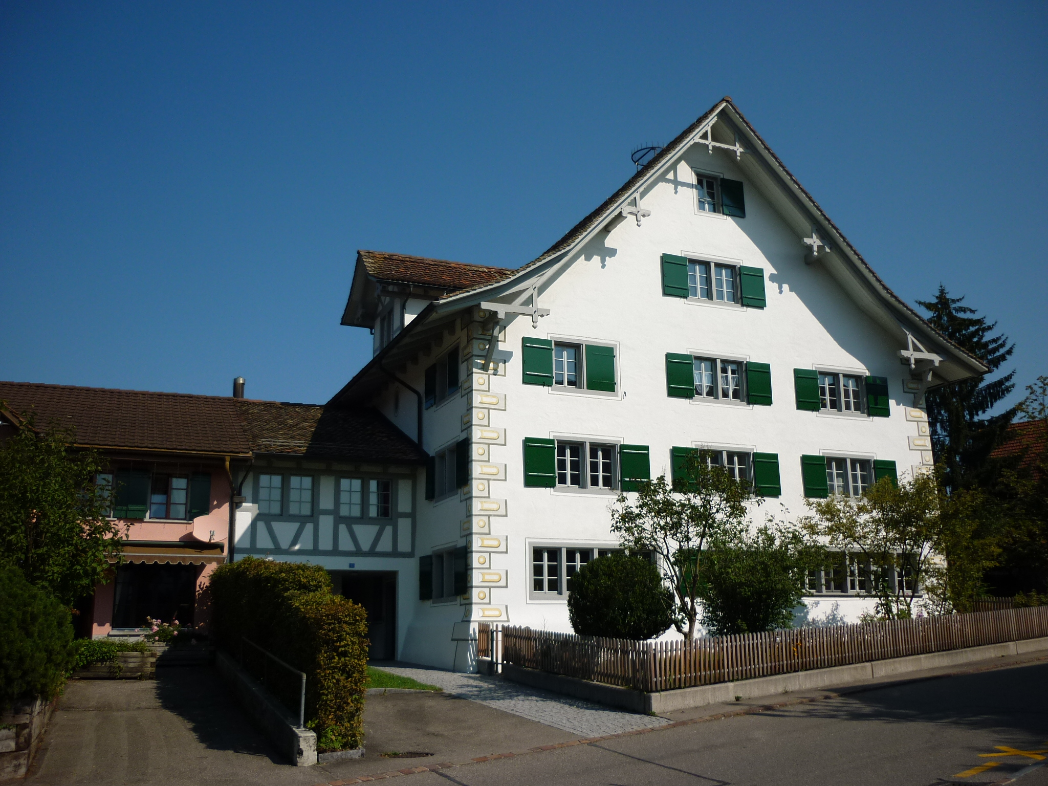 Mönchaltorf ZH, Switzerland